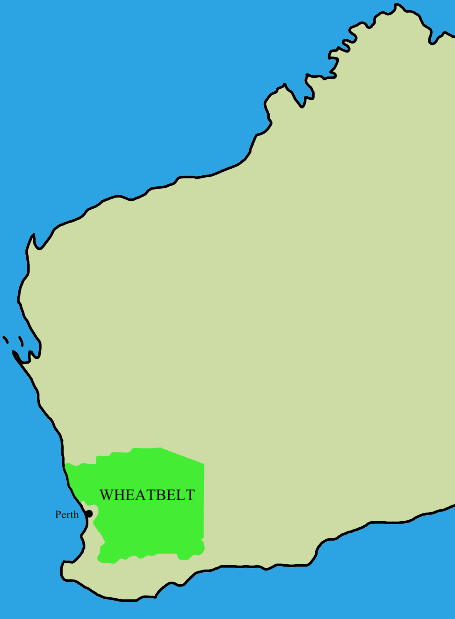 Wheatbelt region in Western Australia